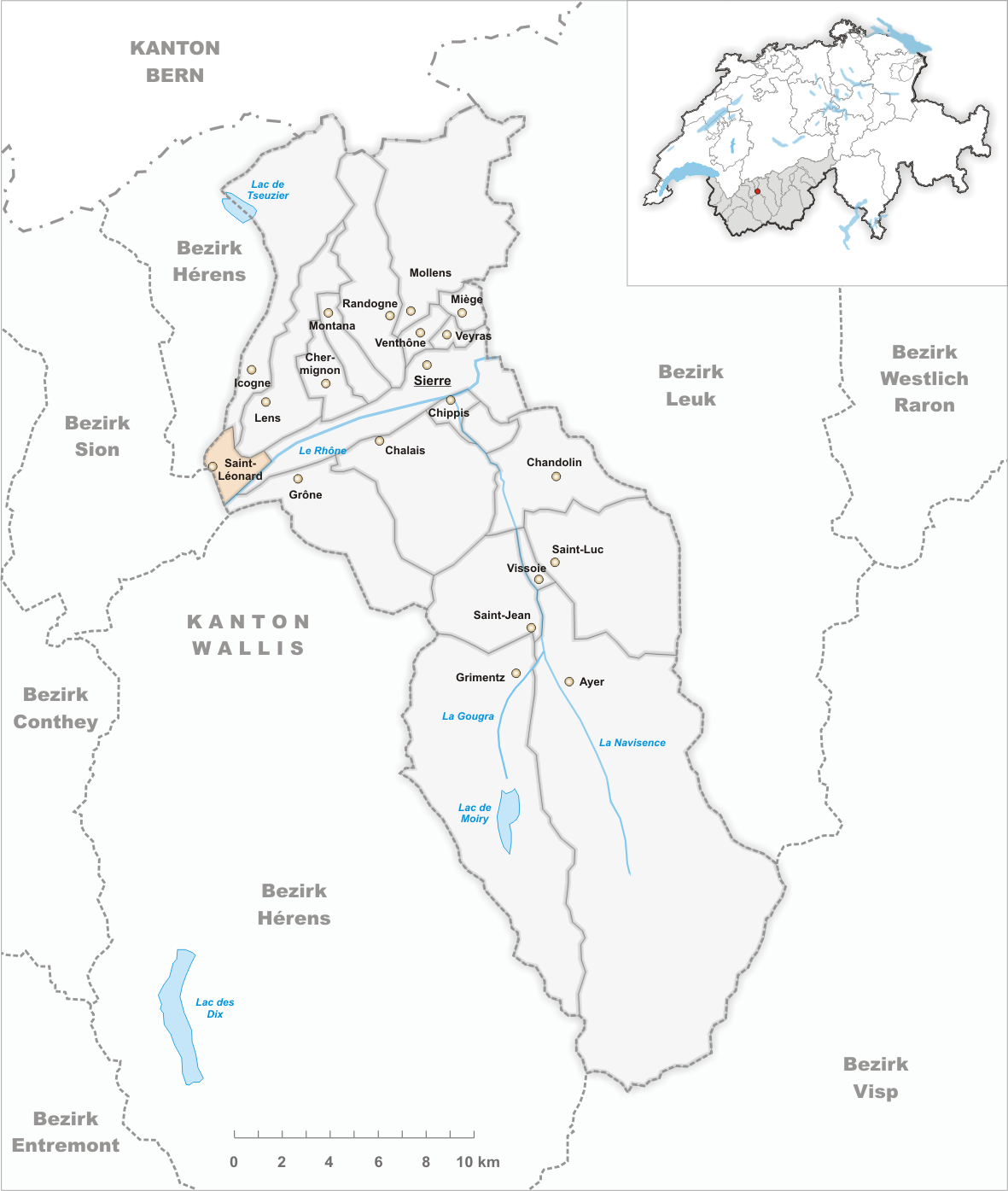 Municipality Saint-Léonard